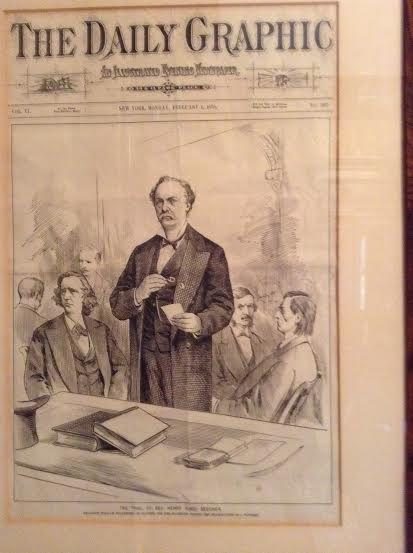 This is a portrait of William Fullerton during the Henry Ward Beecher adultery trial